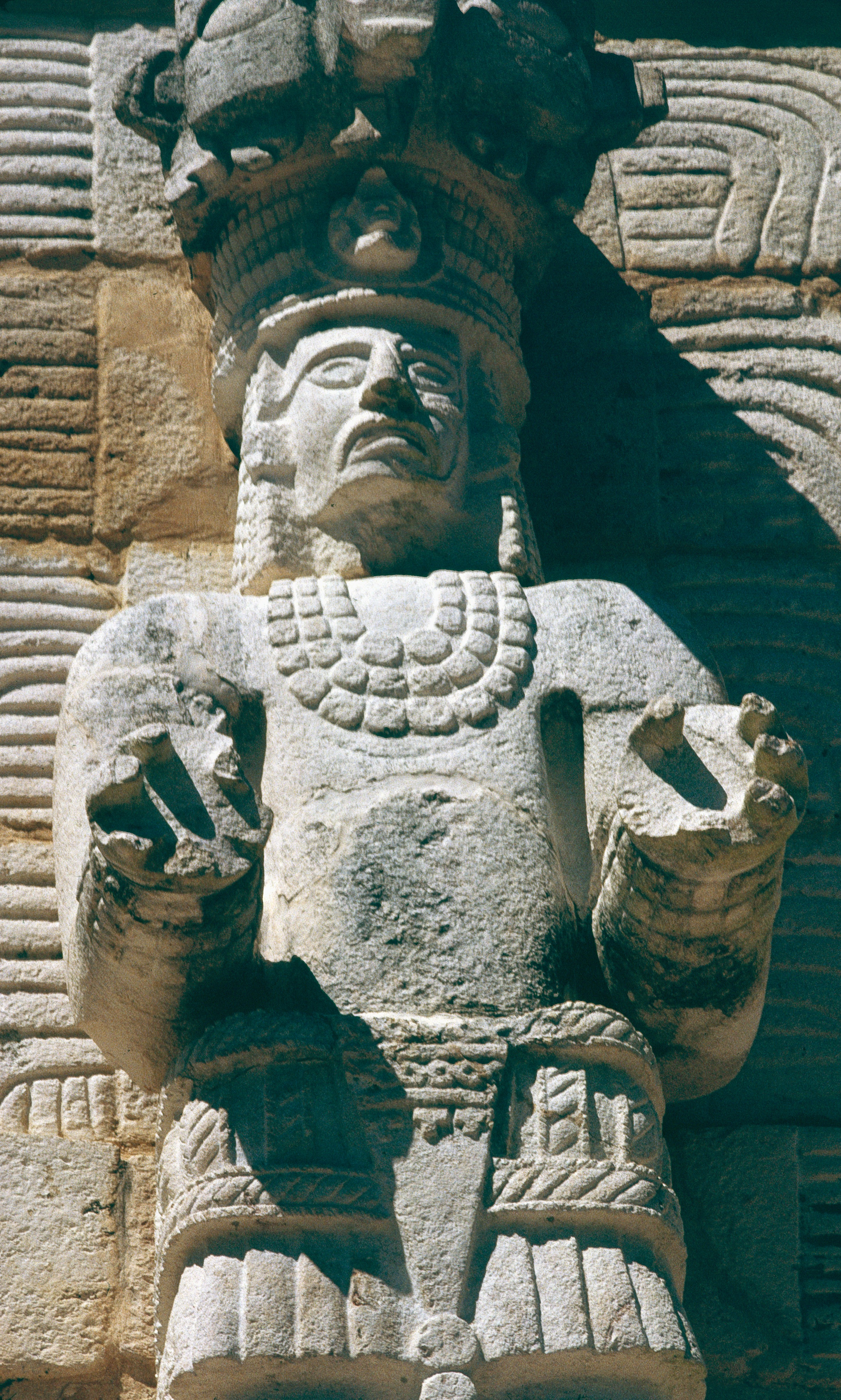 Kabah, Yucatan, Mexico: Codz Pop east side. Figure.